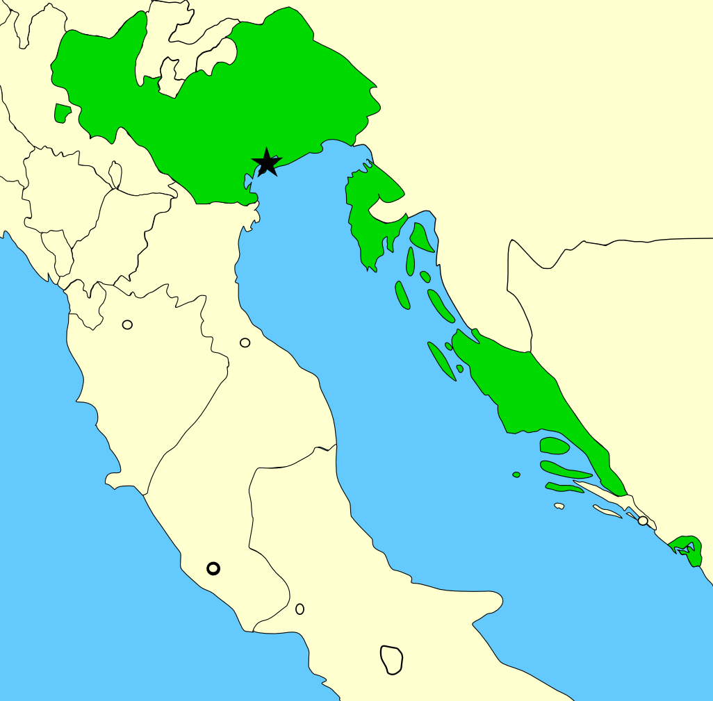 A map showing the territories of the Republic of Venice in the year 1796, before the Napoleonic invasions of that year. Please note that the Venetian-held Ionian Islands are not shown on this map; for a map of these possessions, see Image:Europe 1740.jpg. Created by MapMaster using Image:Italy 1796.png as base.